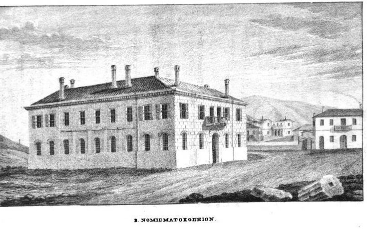 The Greek Royal Mint, 1837